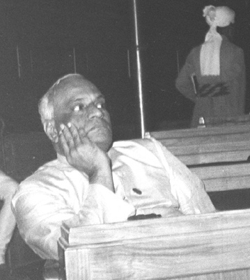 Photograph taken during the Asian Regional Conference of the International Labour Organization which was held in New Delhi in October 1947.